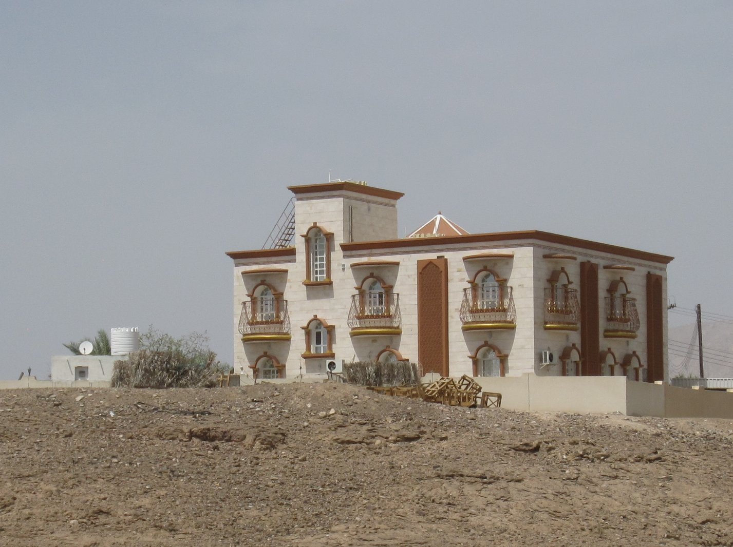 Ornate house in Ibri, Oman.